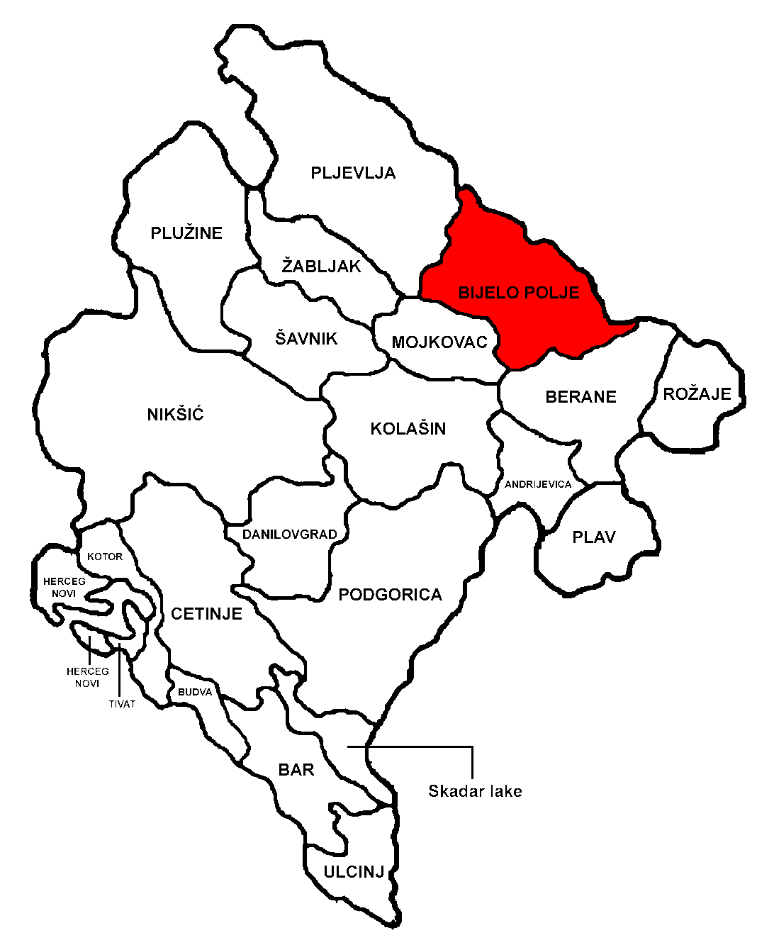 Location of Bijelo Polje within Montenegro